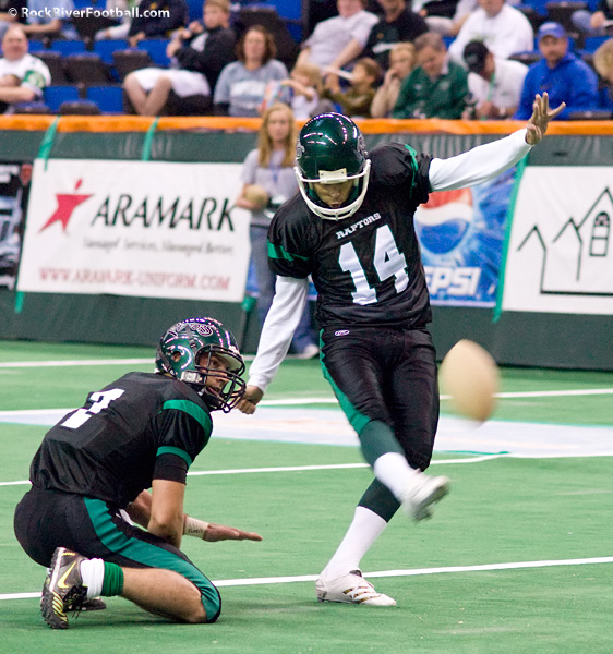 Jim Terry - Kicker for the Rock River Raptors